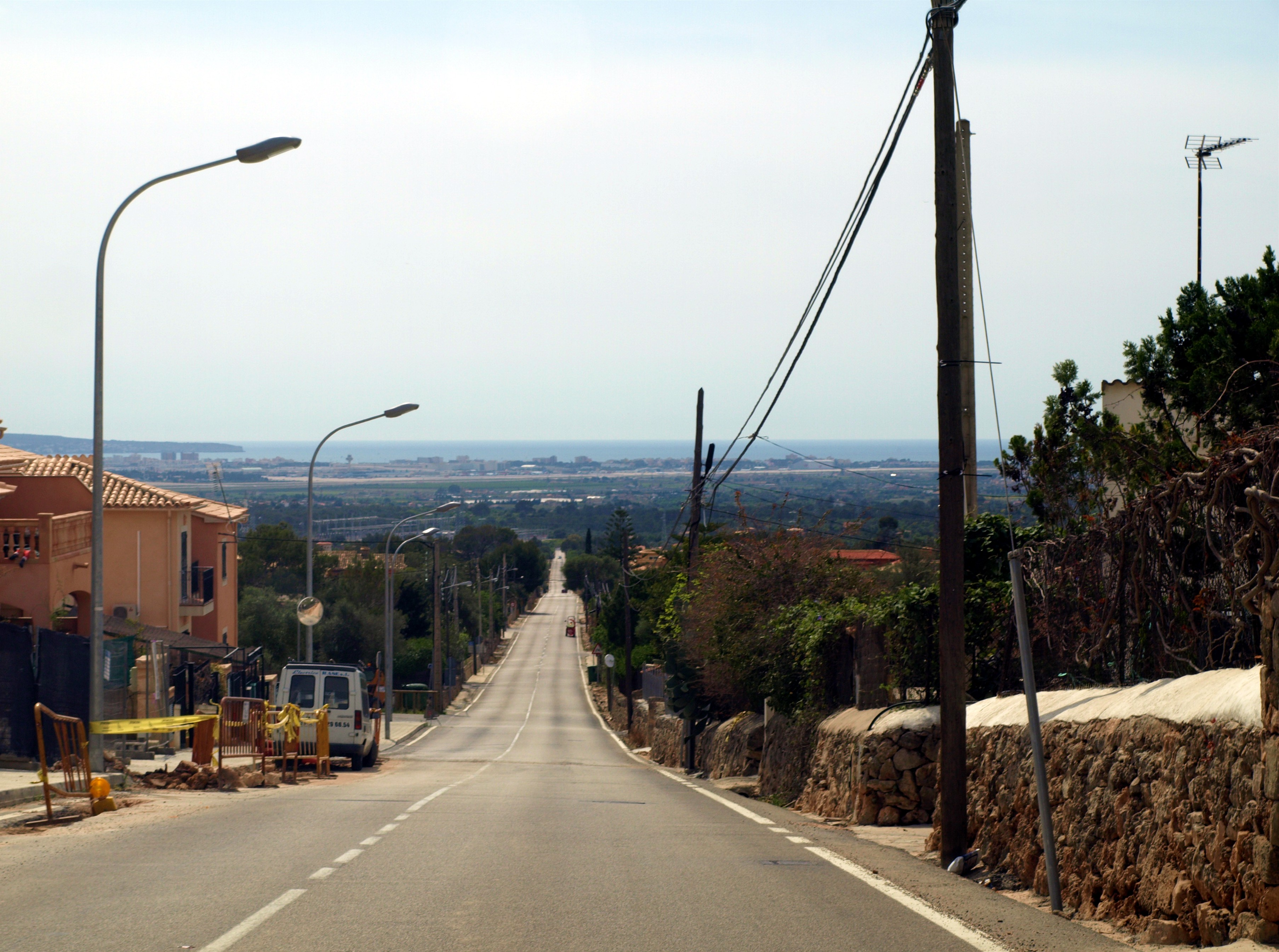 Sa Comuna road, Sa CabanetaMarratxí